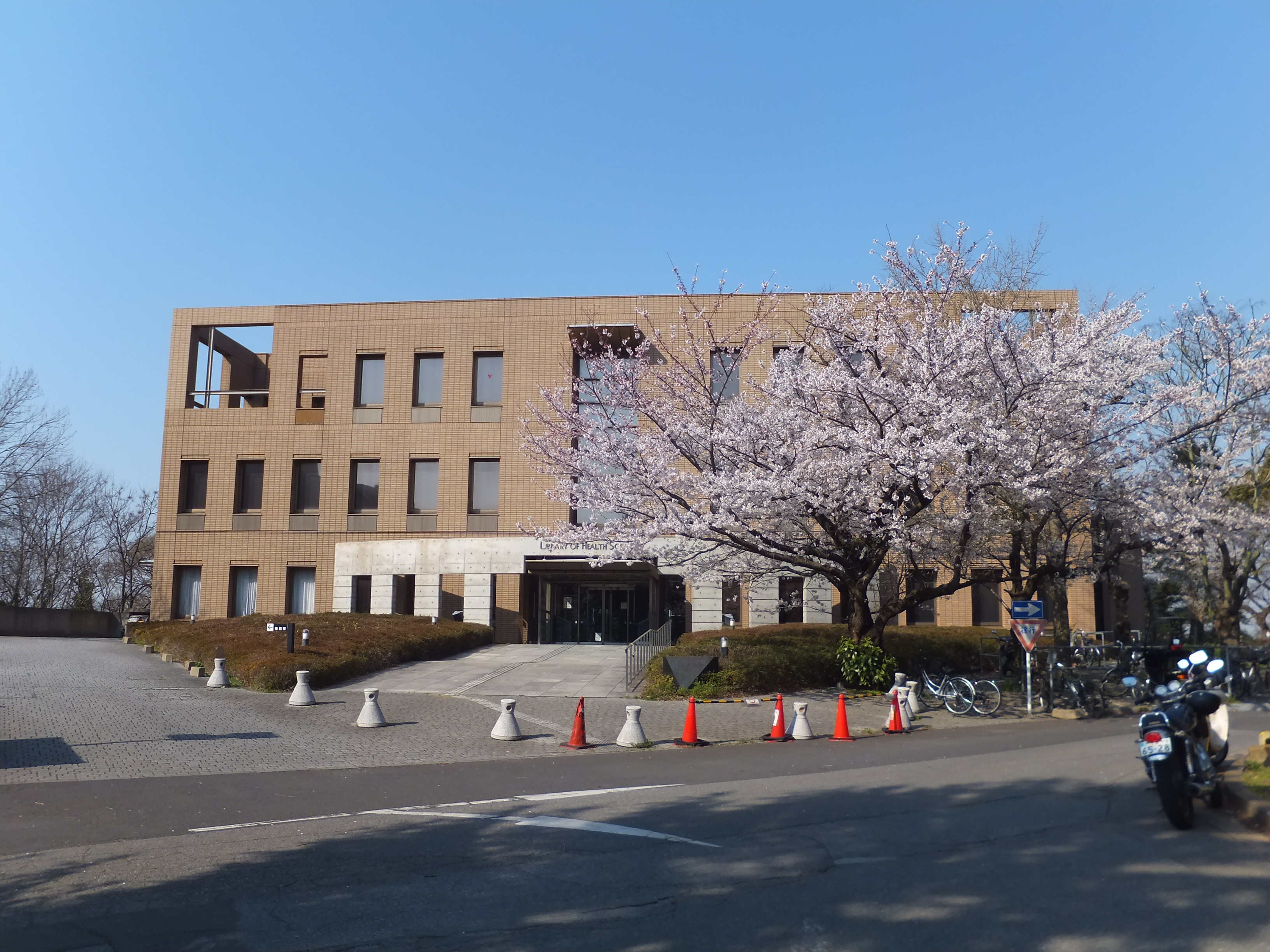 Chiba University Library, Inohana Annex